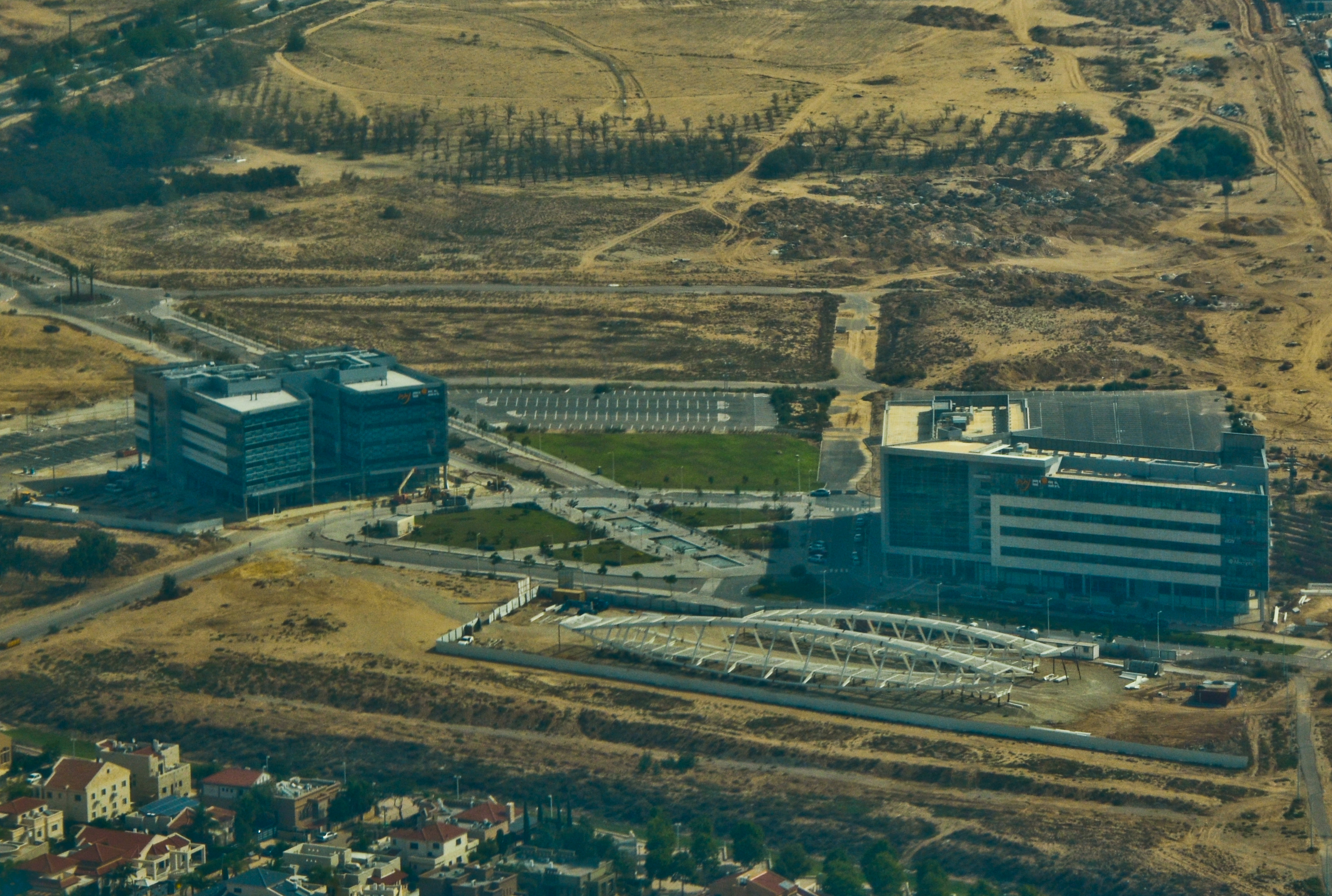 Shot from plane flown by Ilan maytal